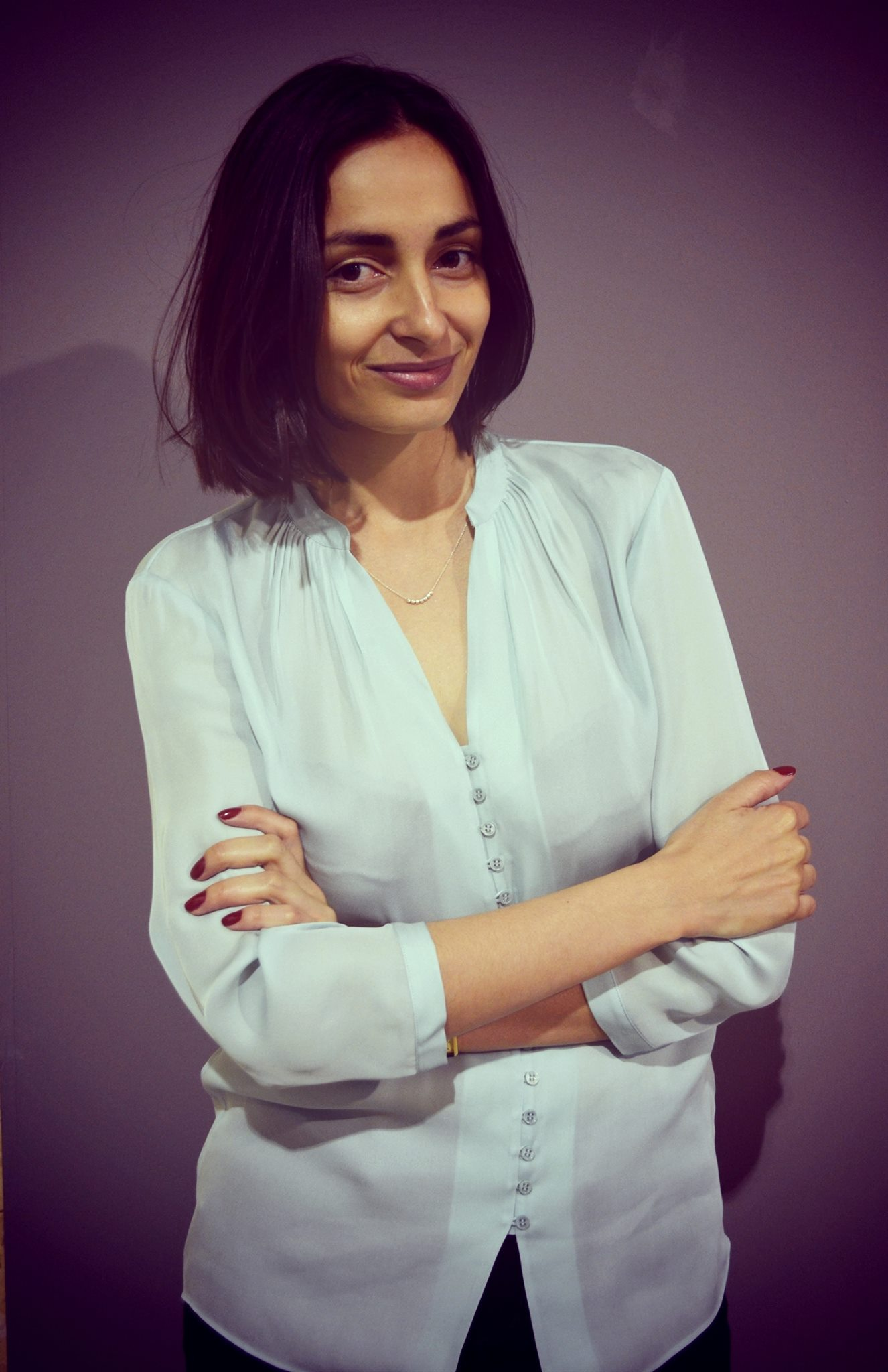 Iryna Vikyrchar, Ukainian poetess, translator, publisher.